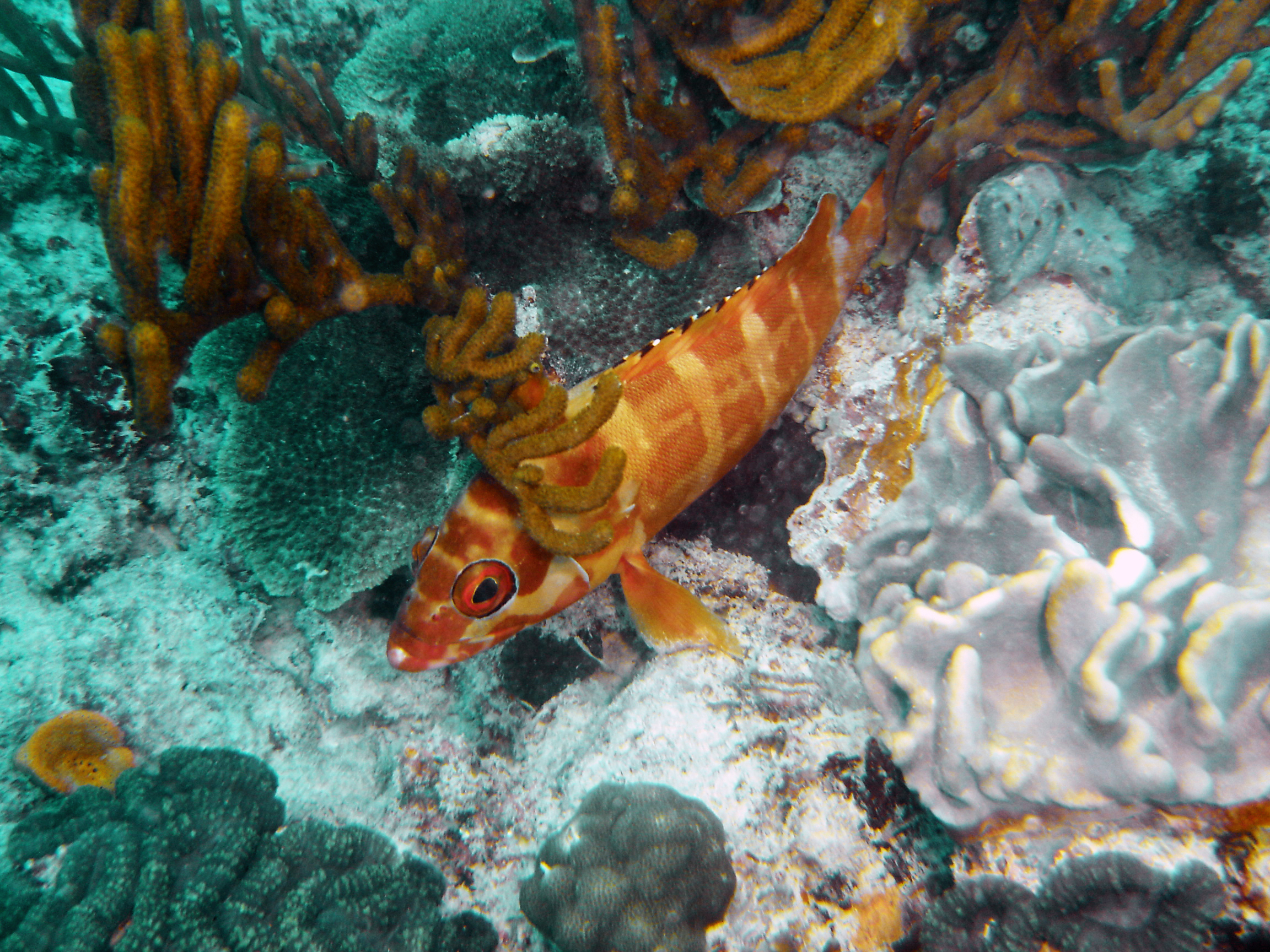 Subject: Epinephelus fasciatus (Blacktip Rockcod) Location: Heron Island, QLD, Australia Dive Site: Coral Grotto Depth: 15m